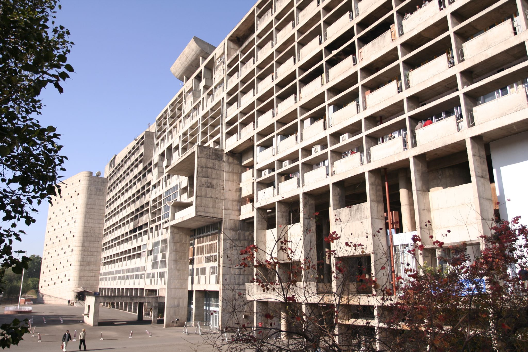 Secretariat at Chandigarh — India. Modernist architecture by Le Corbusier (1955). The Punjabi government operates out of this mammoth concrete megastructure.